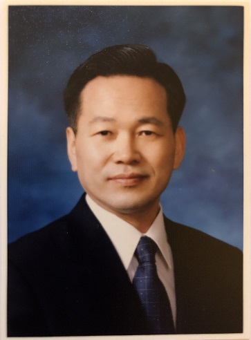 YS Cho's feature jpg photo